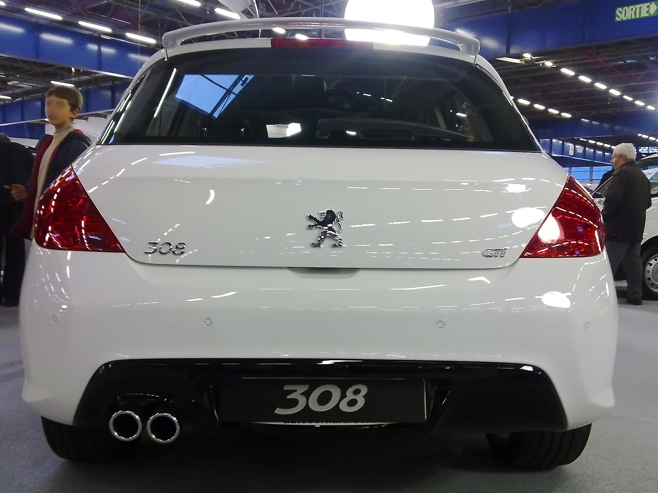 Rear view of a Peugeot 308 GTi at the Salon de l'Automobile de Grenoble.